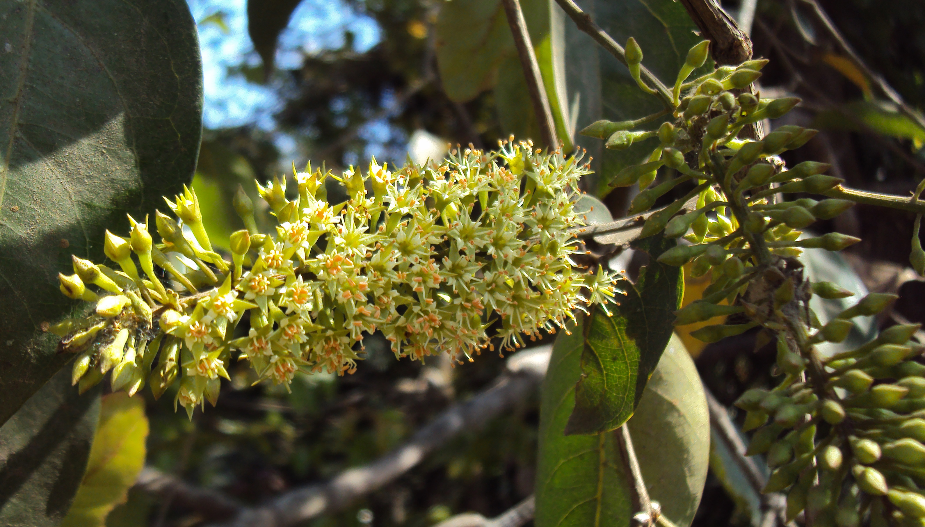 Combretum latifolium